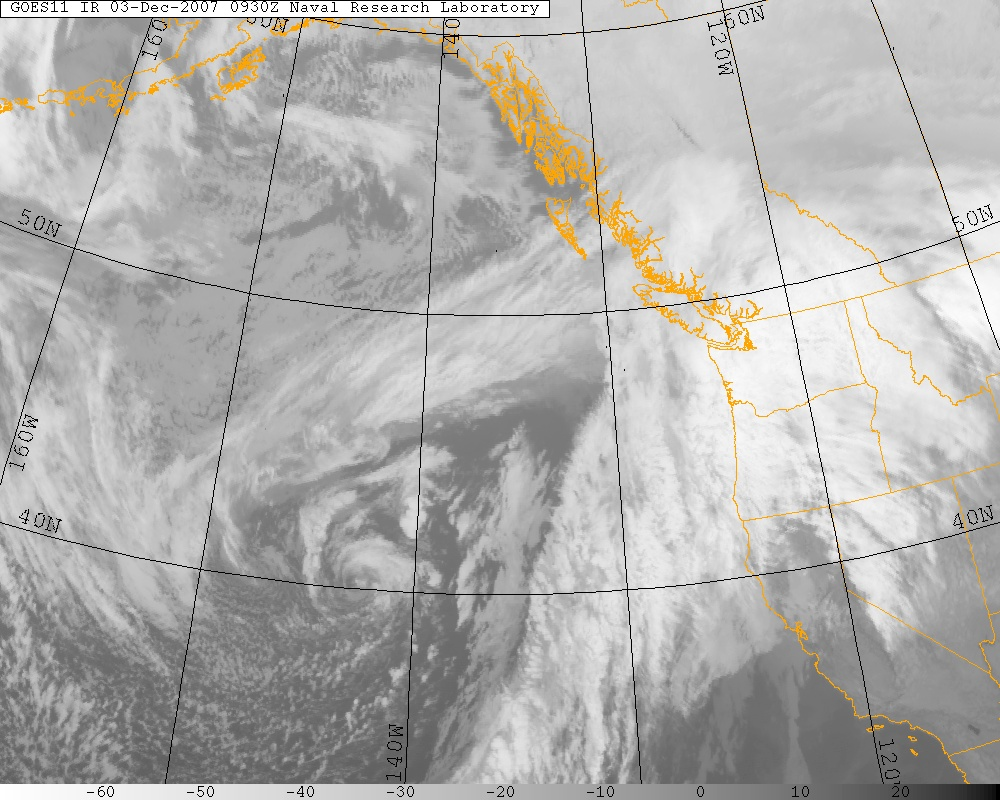 December 3rd Pacific Northwest Storm